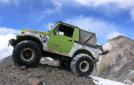 The modified Suzuki SJ used in the Ojos del Salado expedition. Picture taken at 6.651m